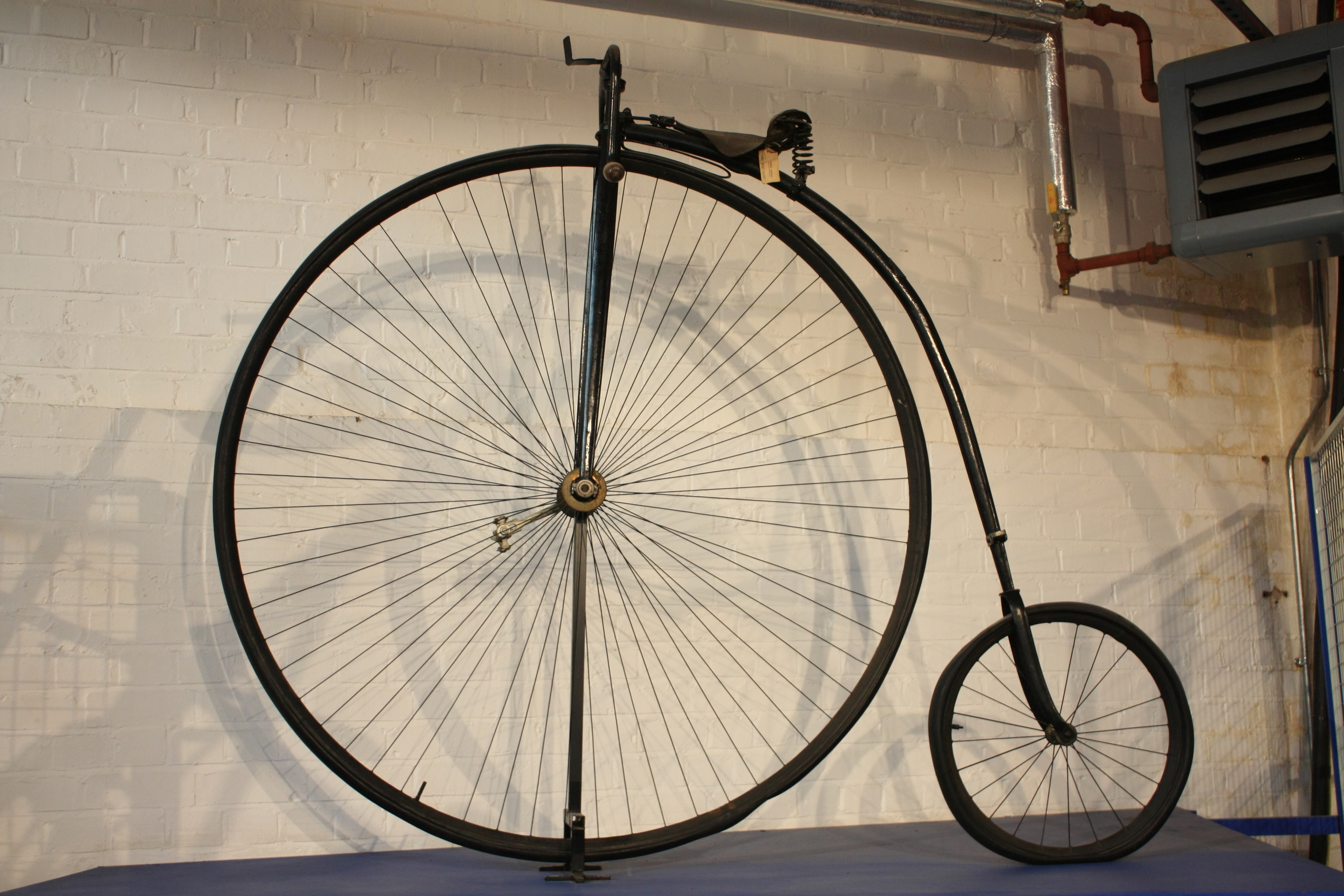 Coventry Transport Museum, UK. 2009